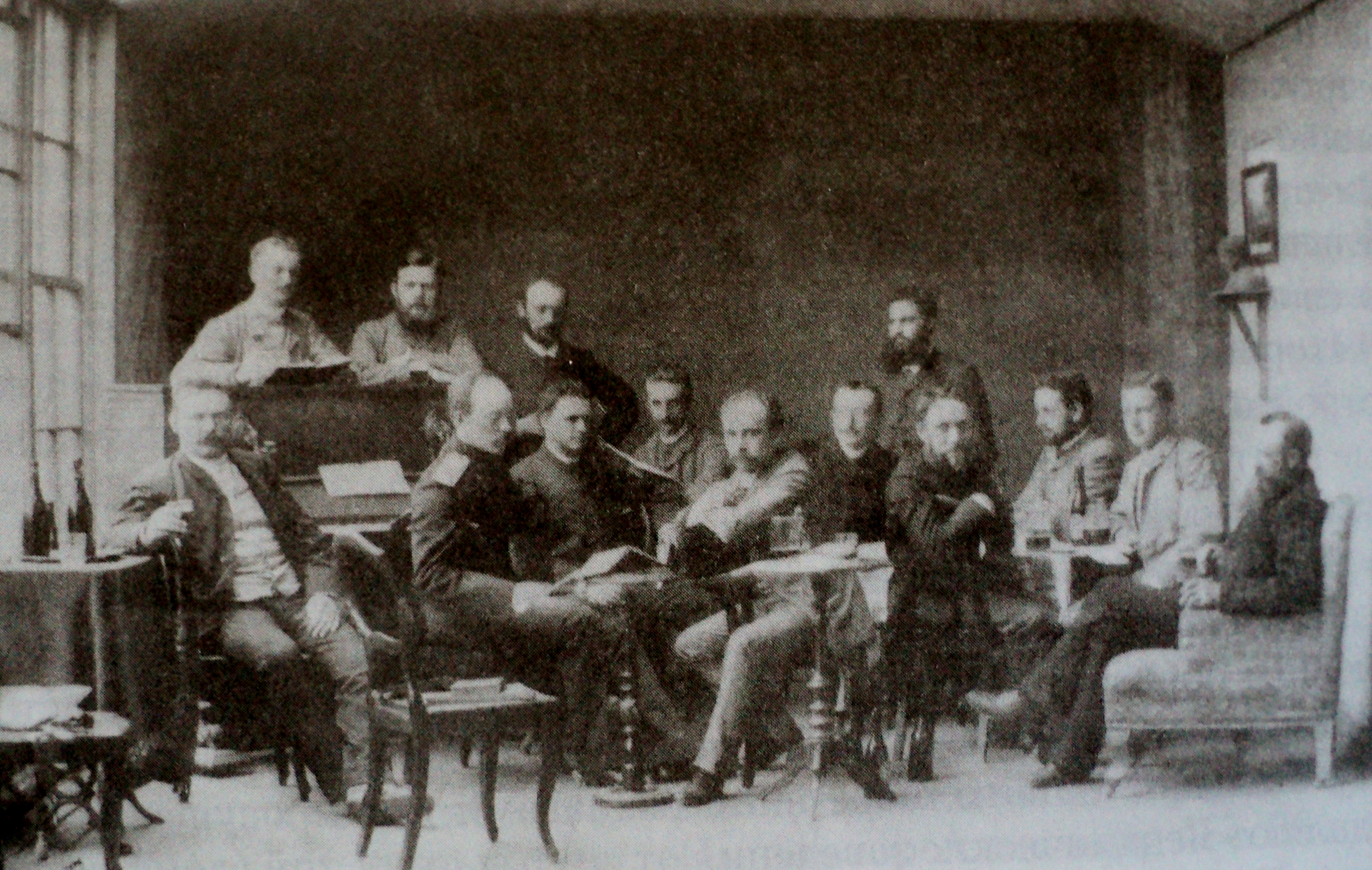 Nakhodka City, XIX century